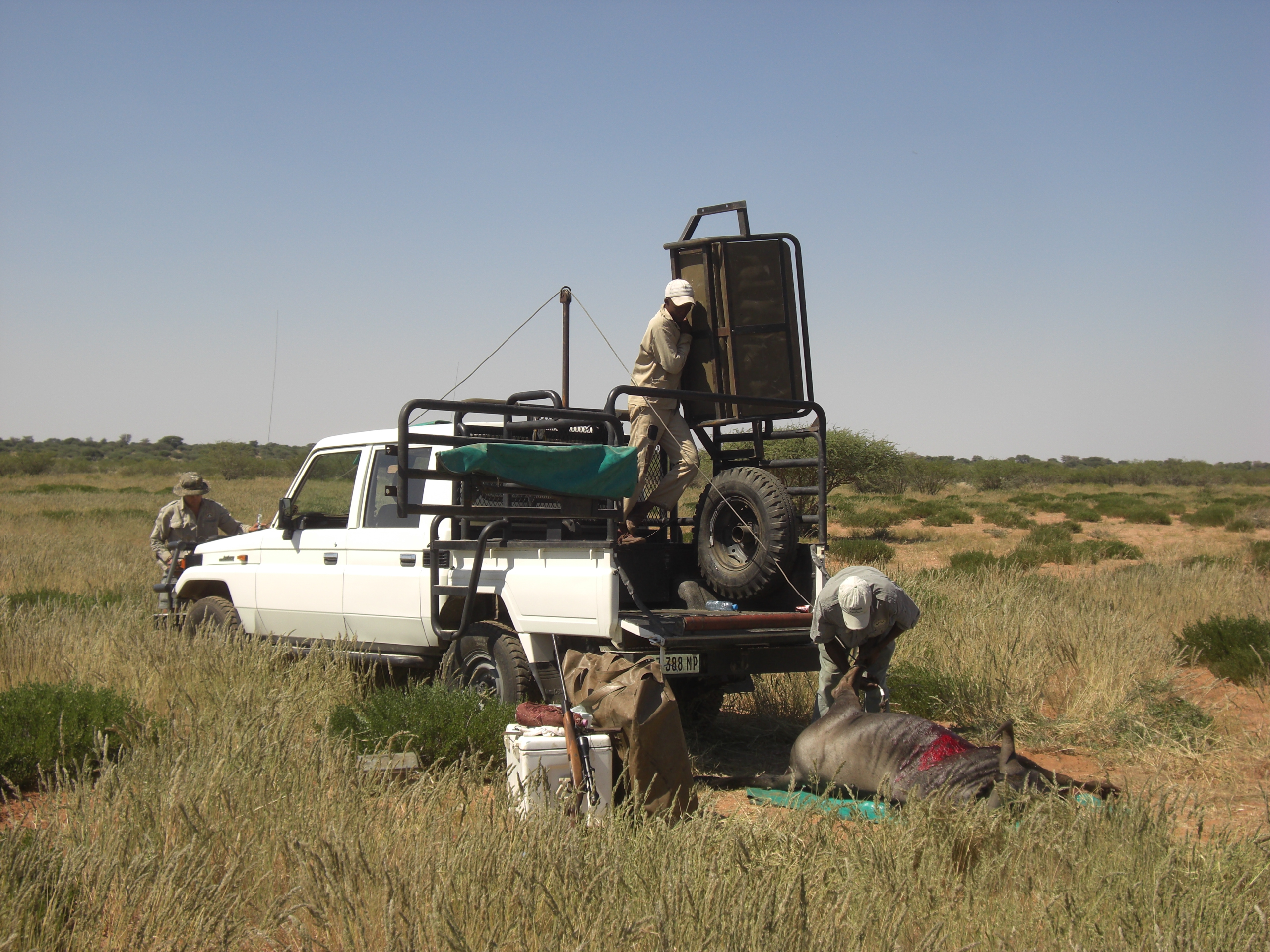 Trophy loading (blue wildebeest), Namibia